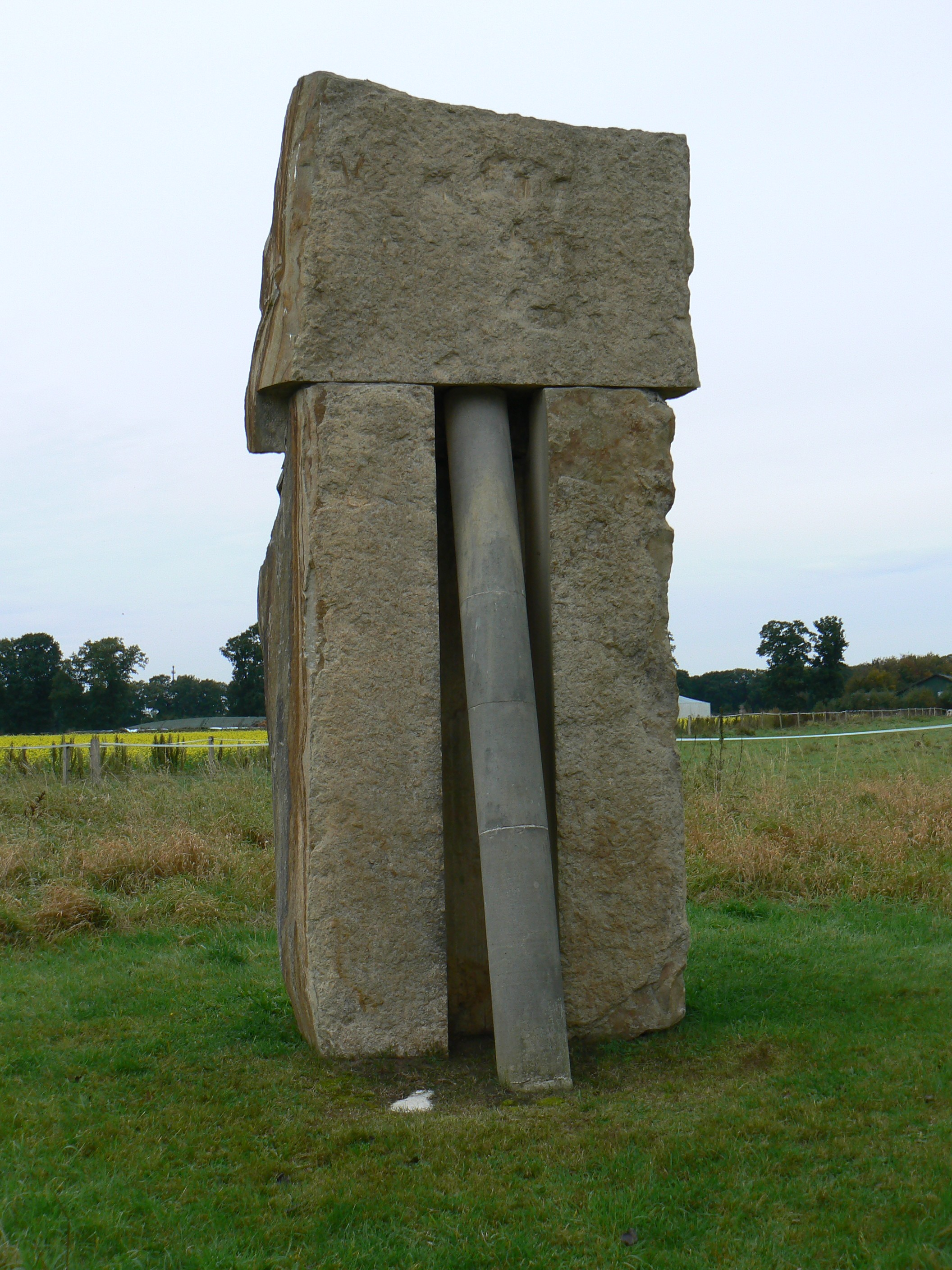 sculpture Säule (1988) by Cornelius Rogge in Frenswegen/Germany